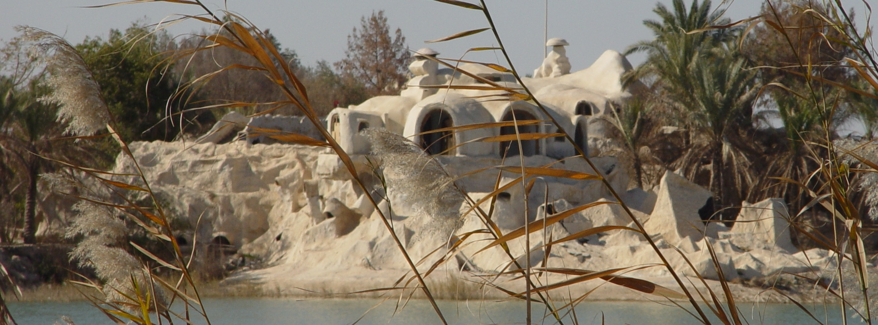 Flintstone House was built as a playhouse for children associated with Saddam Hussein or top Ba'ath party leaders.